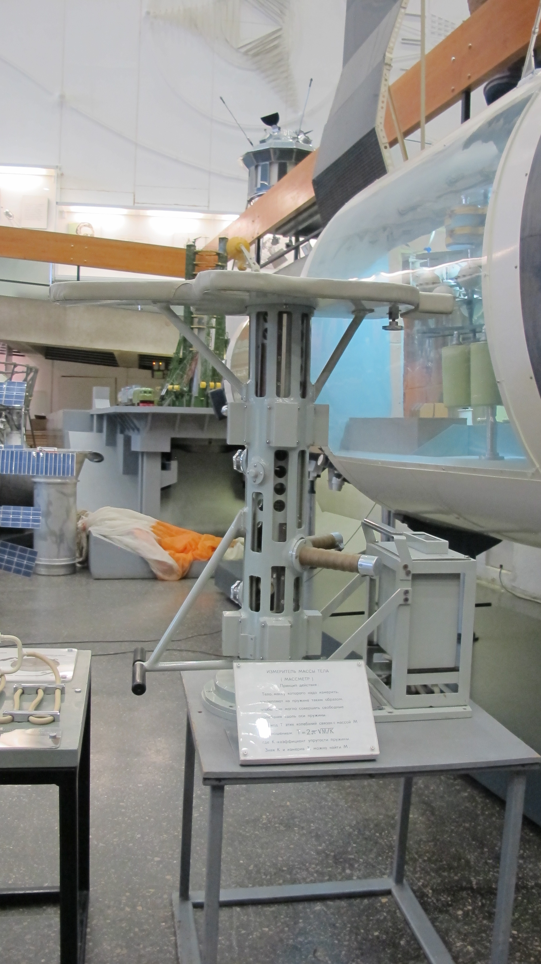 Wikiexpedition to Kaluga 2016-06-11.